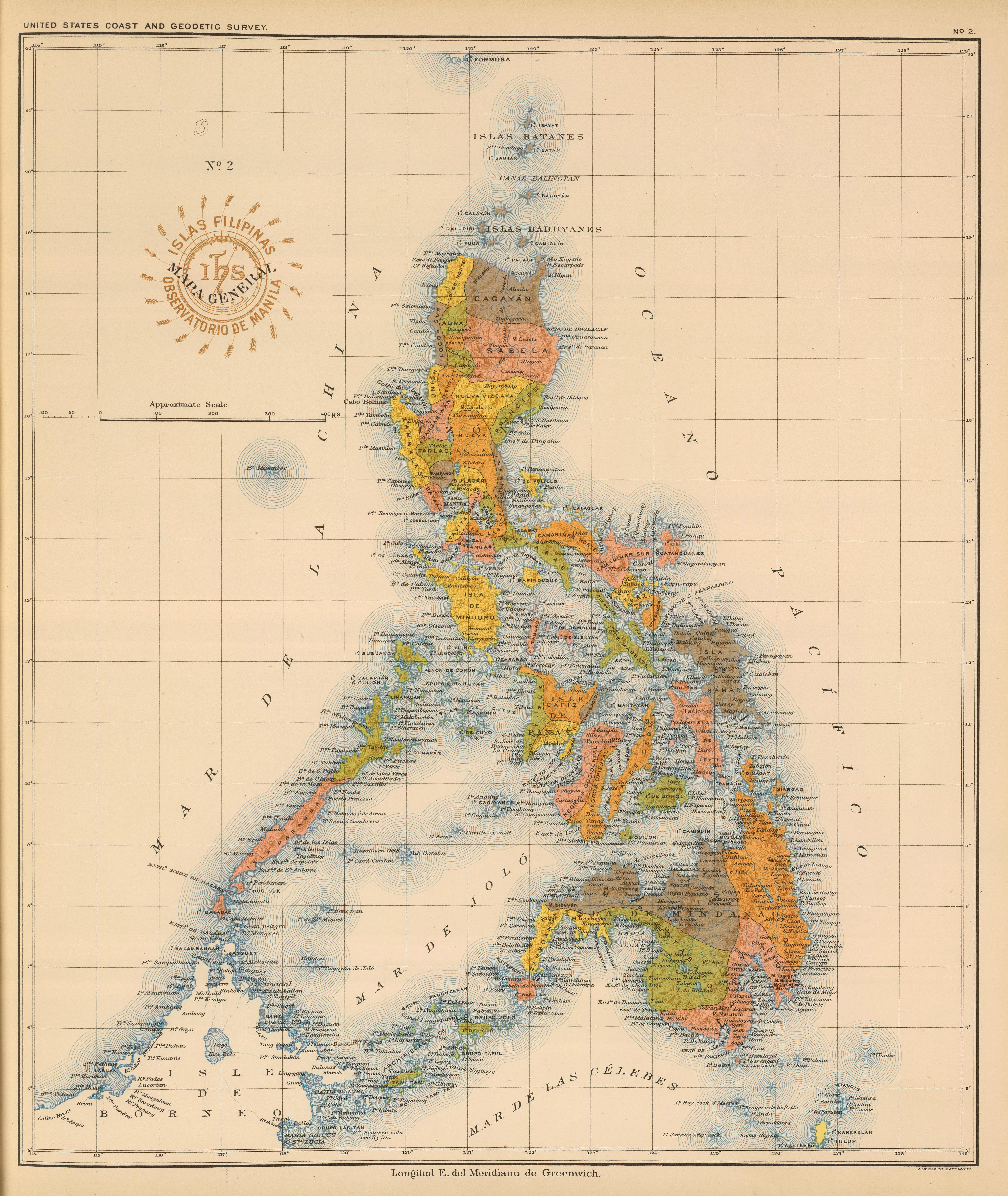 Algue, P. Jose. Atlas of the Philippine Islands. Washington, D.C.: U.S. Government Printing Office, 1900. Print. (